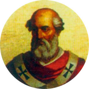 Portait of Pope Gregory IV in the Basilica of Saint Paul Outside the Walls, Rome